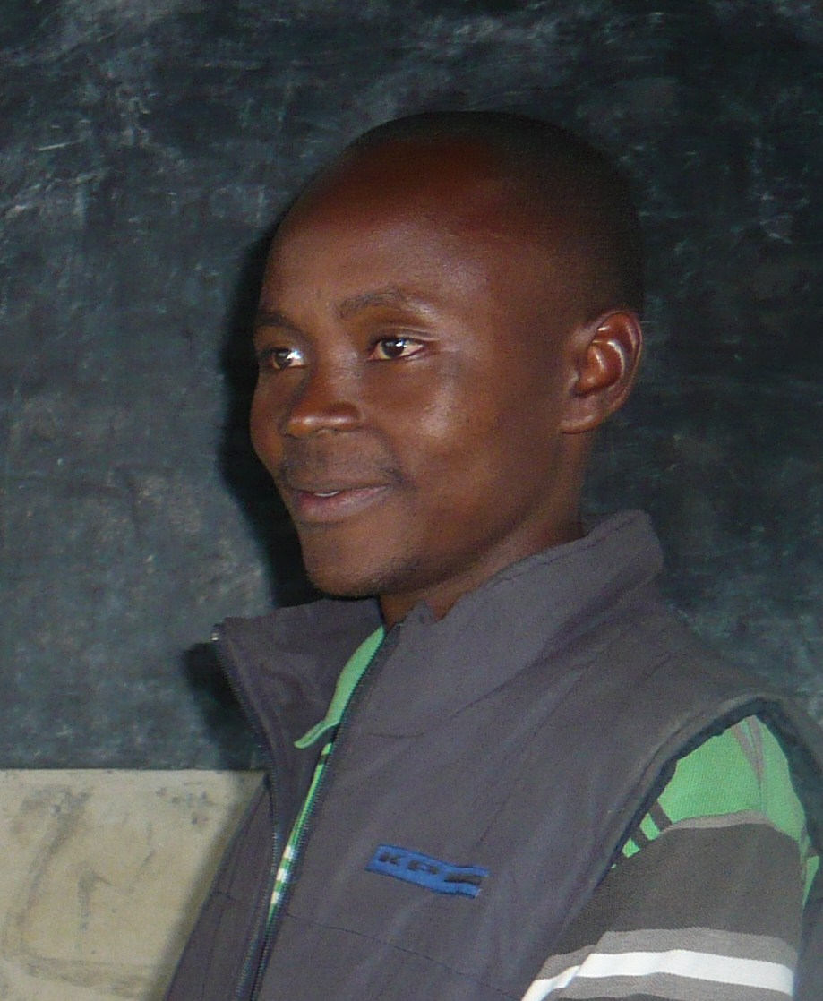 Esperantist, president of the Esperanto Association of Burundi